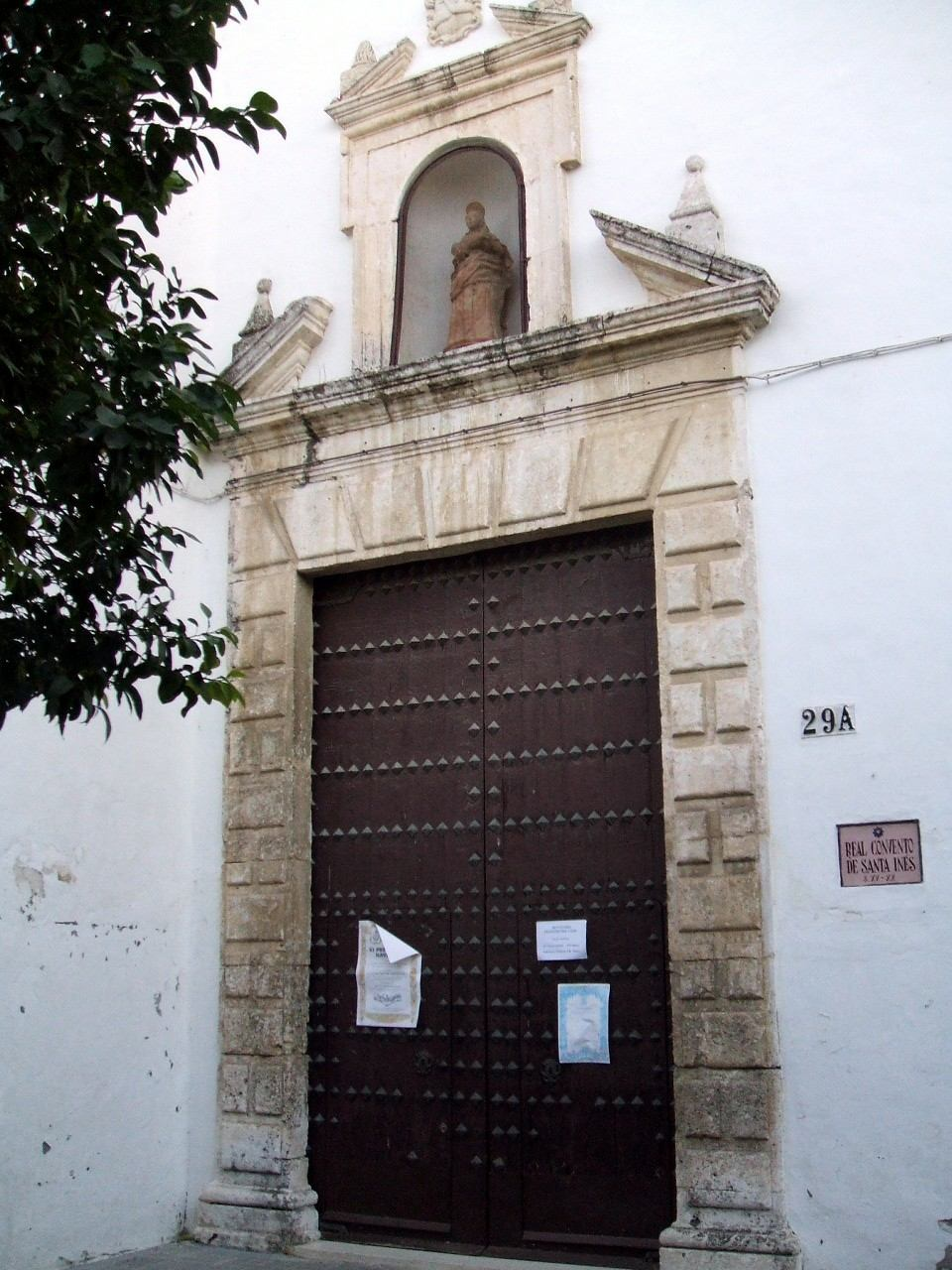 Puerta de la iglesia del Real Monasterio de Santa Inés del Valle, Écija, Sevilla, Andalucía, España